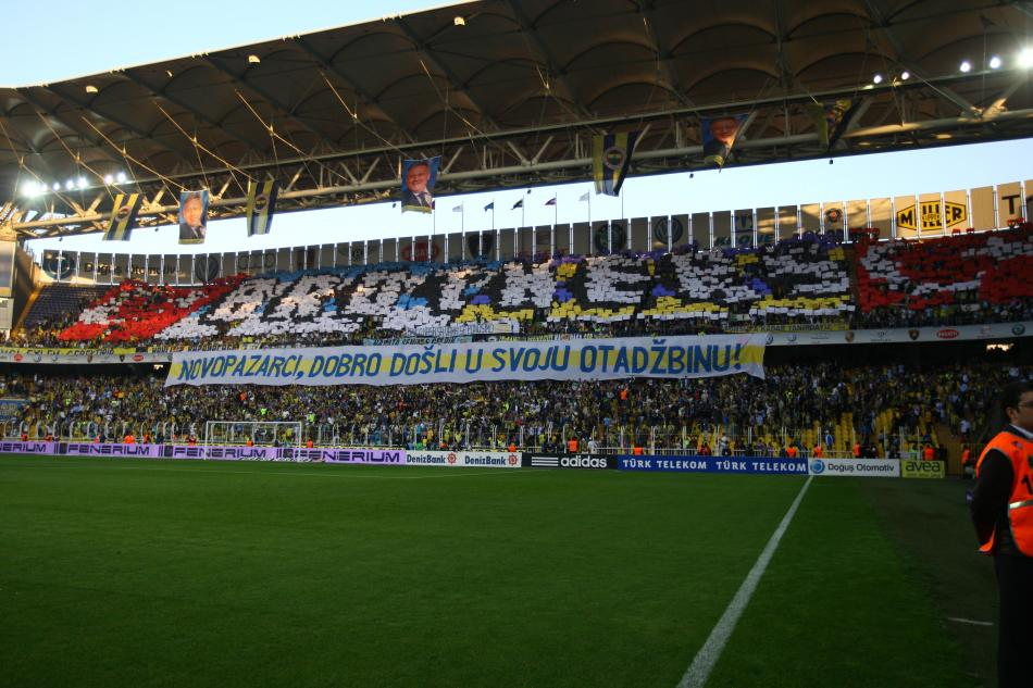 GençFB-TorcidaSandžak